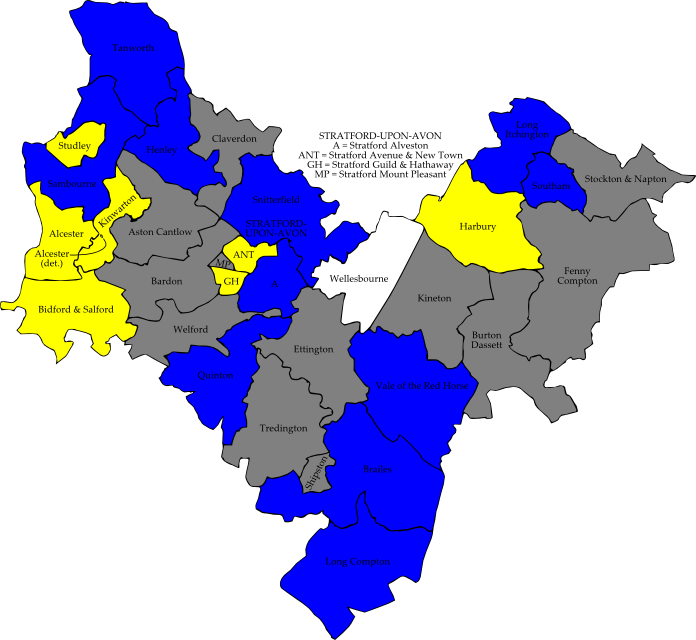 A map of the results of the 2006 Stratford-on-Avon Council election. Colour legend by wards won: Conservative party Liberal Democrats Independent Wards in grey were not contested in 2006.